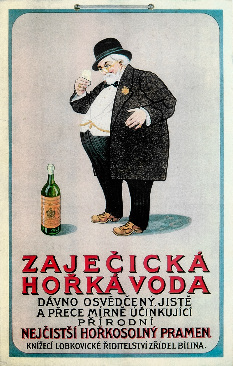 ZAJECICKA HORKA historical poster.